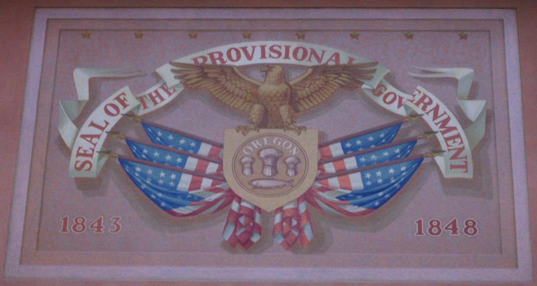 Oregon state capitol building Oregon country provisional government mural and seal